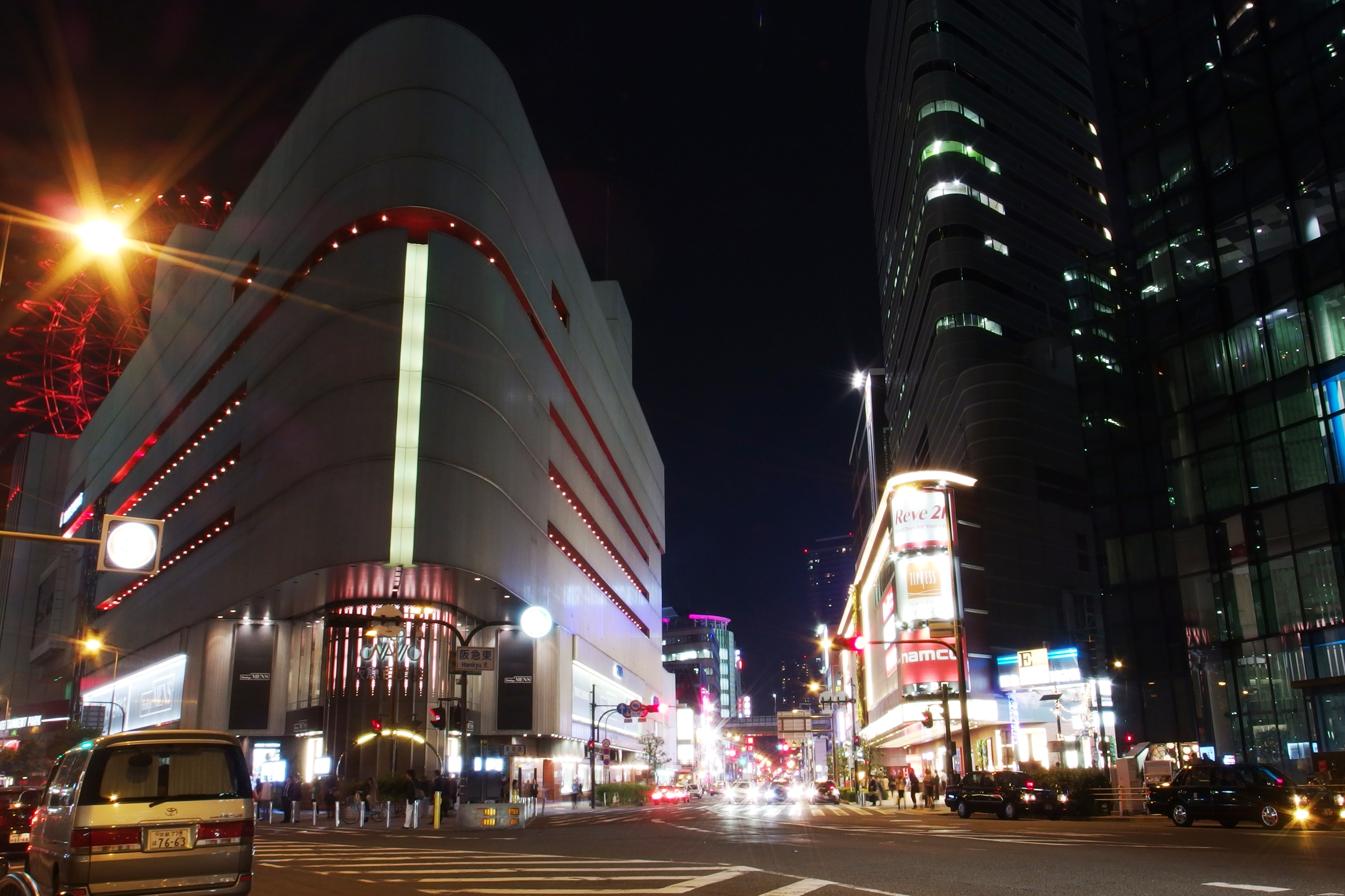 Hankyu-East Intersection in Osaka, Osaka Prefecture, Japan